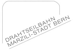 Logo of the Marzilibahn, Bern, Switzerland.